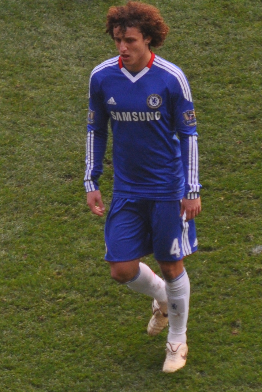 David Luiz Moreira Marinho